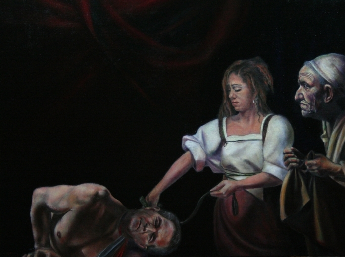 Inspired by Abu Ghraib prisoner abuse, Canadian painter James Miller's "Judith Beheading Holofernes" depicts a tethered George W. Bush as the tyrant Holofernes.